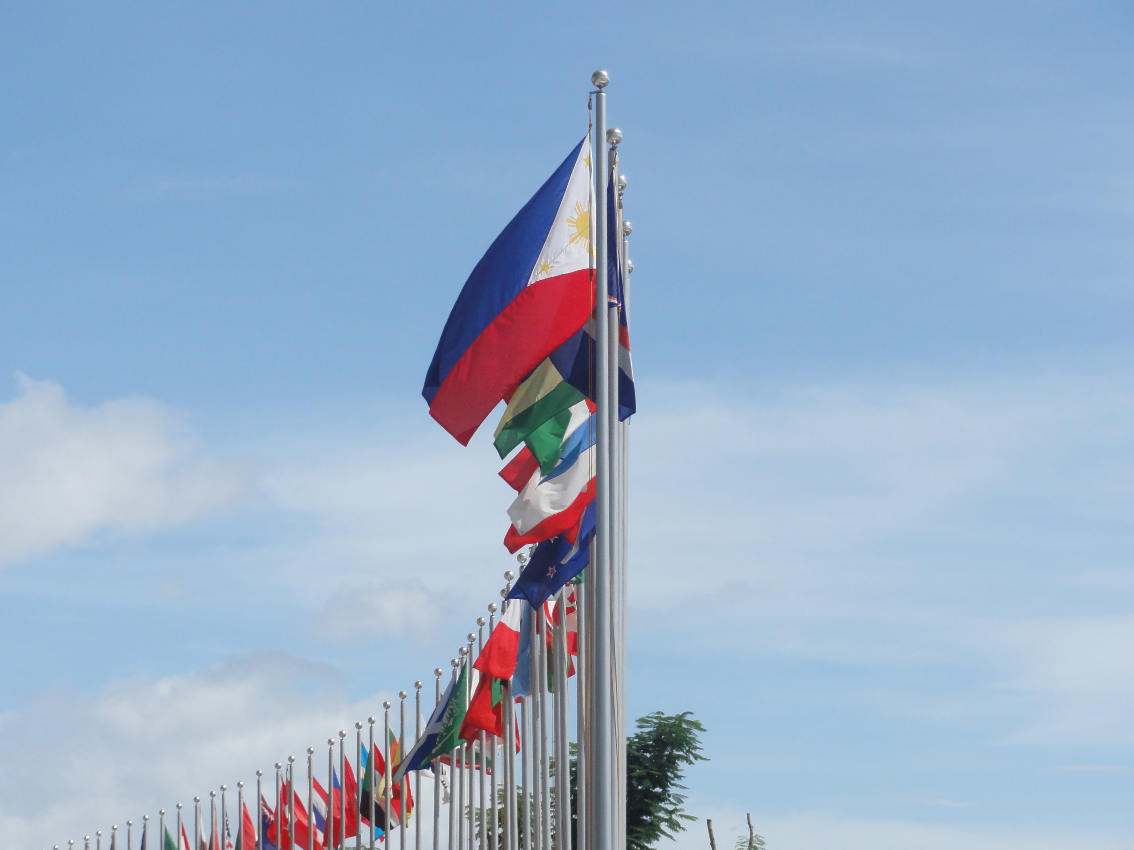 Flags Of The World